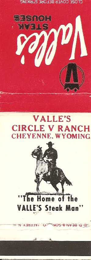 This is a scan of a match book cover that advertises Valle's Steak House.